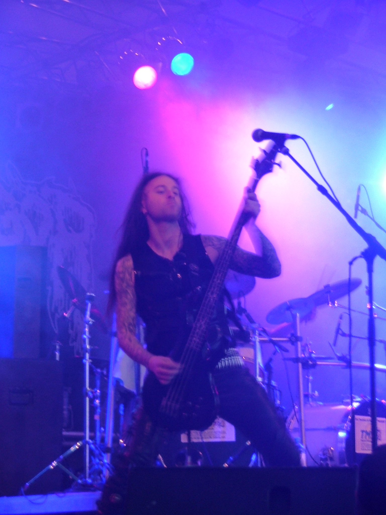 Austrian black metal band Belphegor at 'Rock the Lake' in Finkenstein am Faaker See